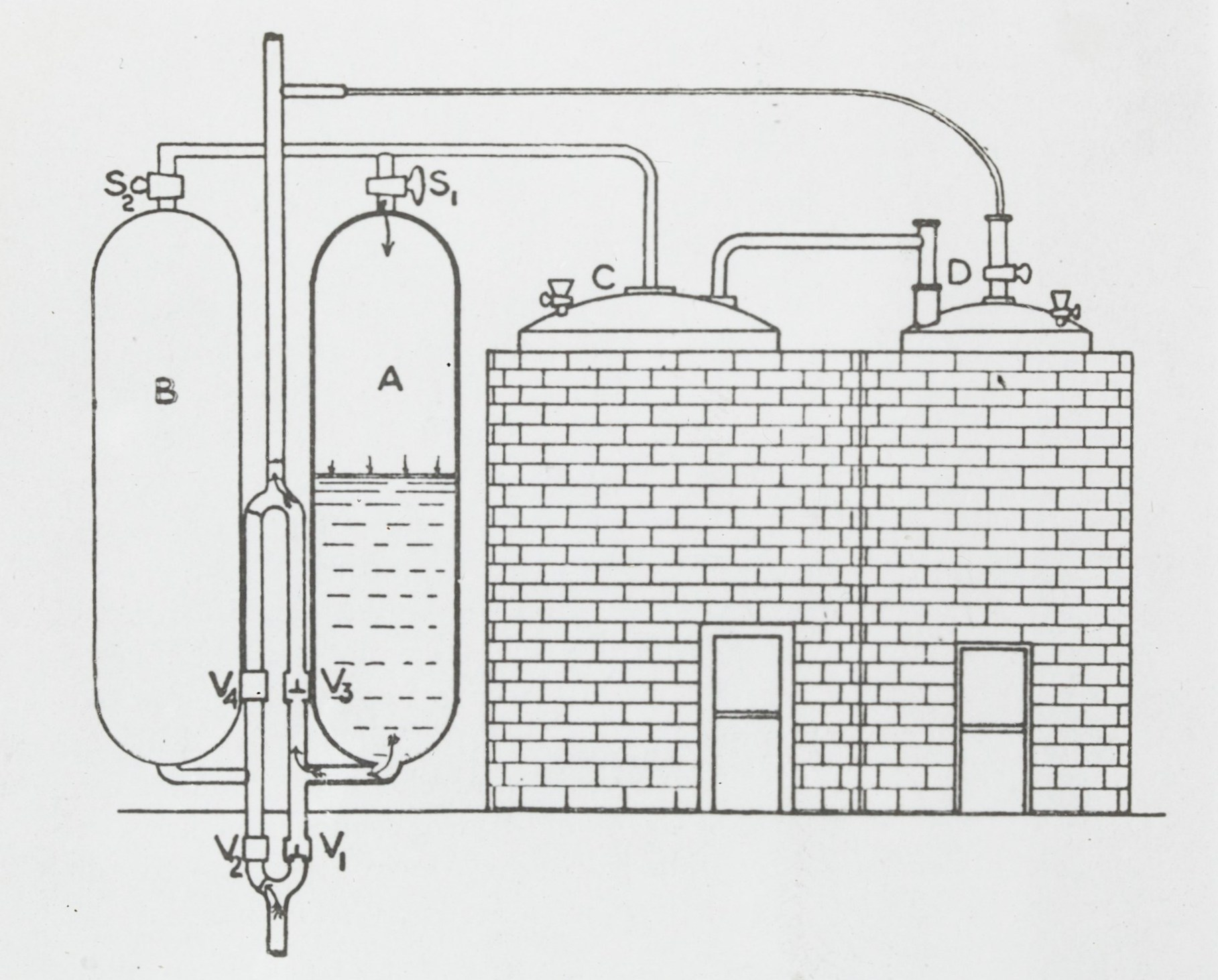 Thomas Savery's mine dewatering pumping engine patented in 1698.